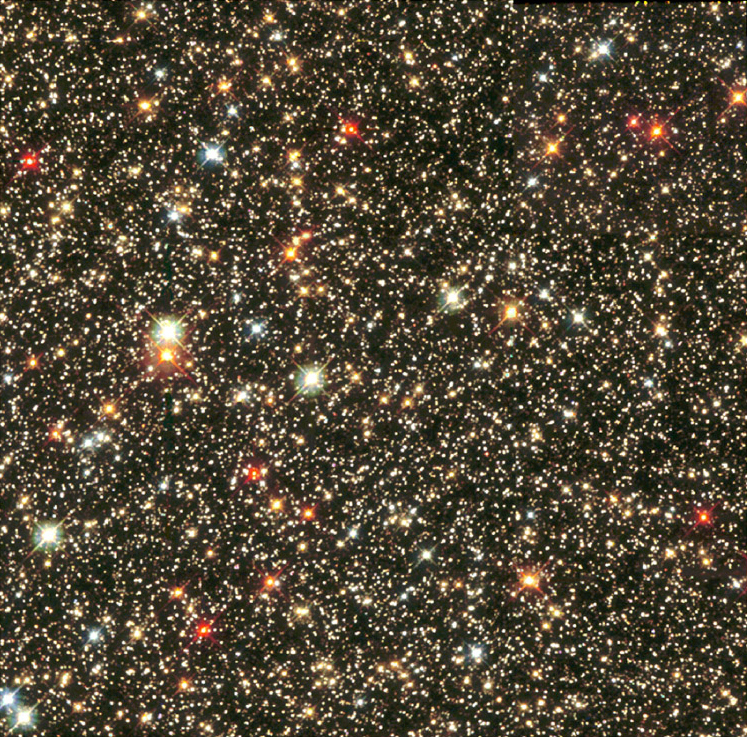 Sagittarius Star Cloud. Stars come in all different colors. The color of a star indicates its surface temperature, an important property used to assign each star a spectral type. Most stars in the above Sagittarius Star Cloud are orange or red and relatively faint, as our Sun would appear. The blue and greenish stars are hotter, many being relatively young and massive. The bright red stars are cool Red Giants, bloated stars once similar to our Sun that have entered a more advanced stage of evolution. Stars of this Sagittarius Cloud lie towards the center of our Galaxy - tantalizing cosmic jewels viewed through a rift in the dark, pervasive, interstellar dust. This famous stellar grouping houses some of the oldest stars known.